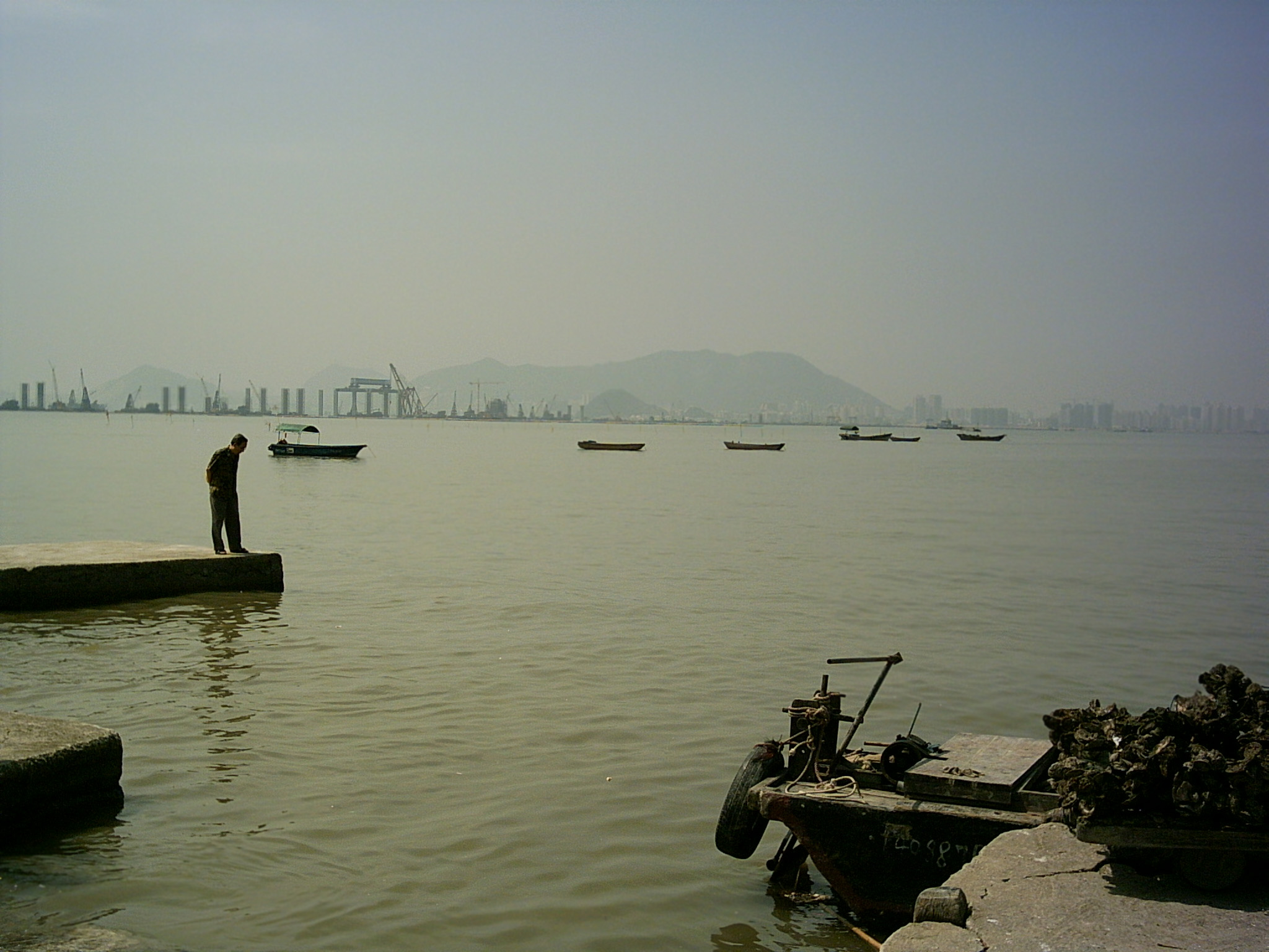 A solitary man standing on a pier at Lau Fau Shan, looking across Deep Bay to Shenzhen. Taken myself on October 3rd, 2004.